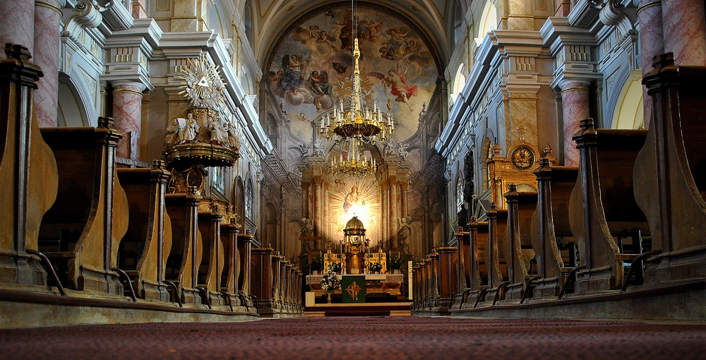 Interior of the "Holy Trinity" roman-catholic church (the former Jesuit church) in Sibiu